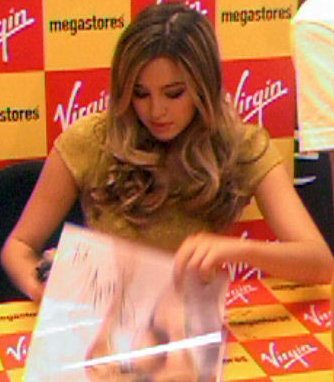 English model Keeley Hazell signing photographs at a Virgin megastores promotion.